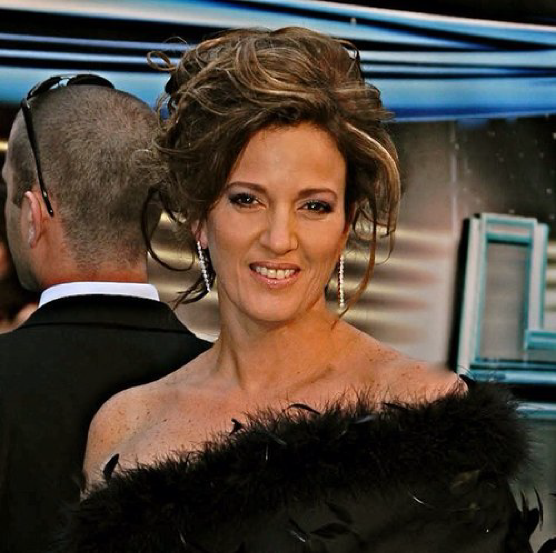 An experienced and award winning executive producer